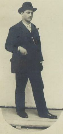 Anton Korošec (1872-1940), slovene politician.